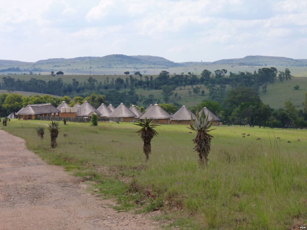 Muldersdrift, now suffering from a high crime rate, is home to a large hospitality industry that caters to neighboring Johannesburg and Pretoria citizens coming there for functions or weddings. (Photo- VOA Solene Honorine)